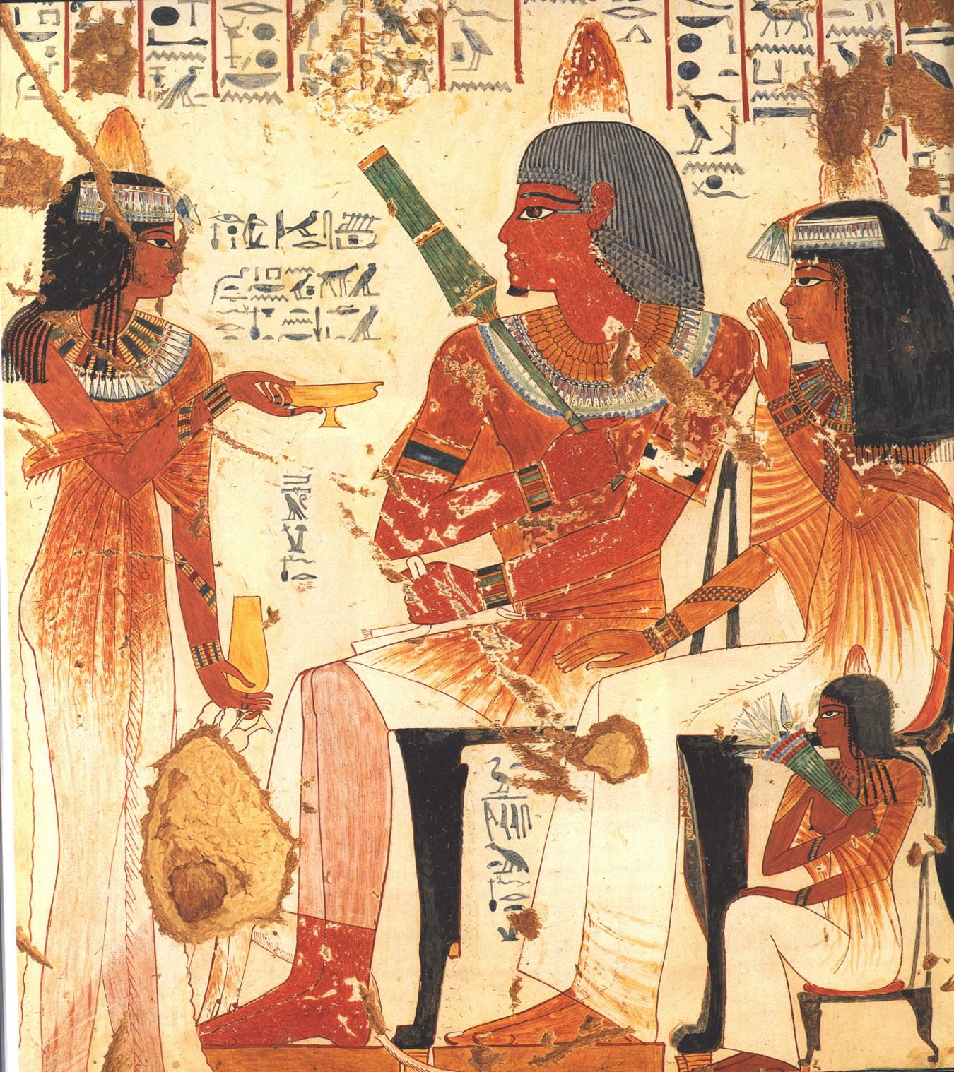 Facsimile, Nebamun, Ipuky (TT 181), offering